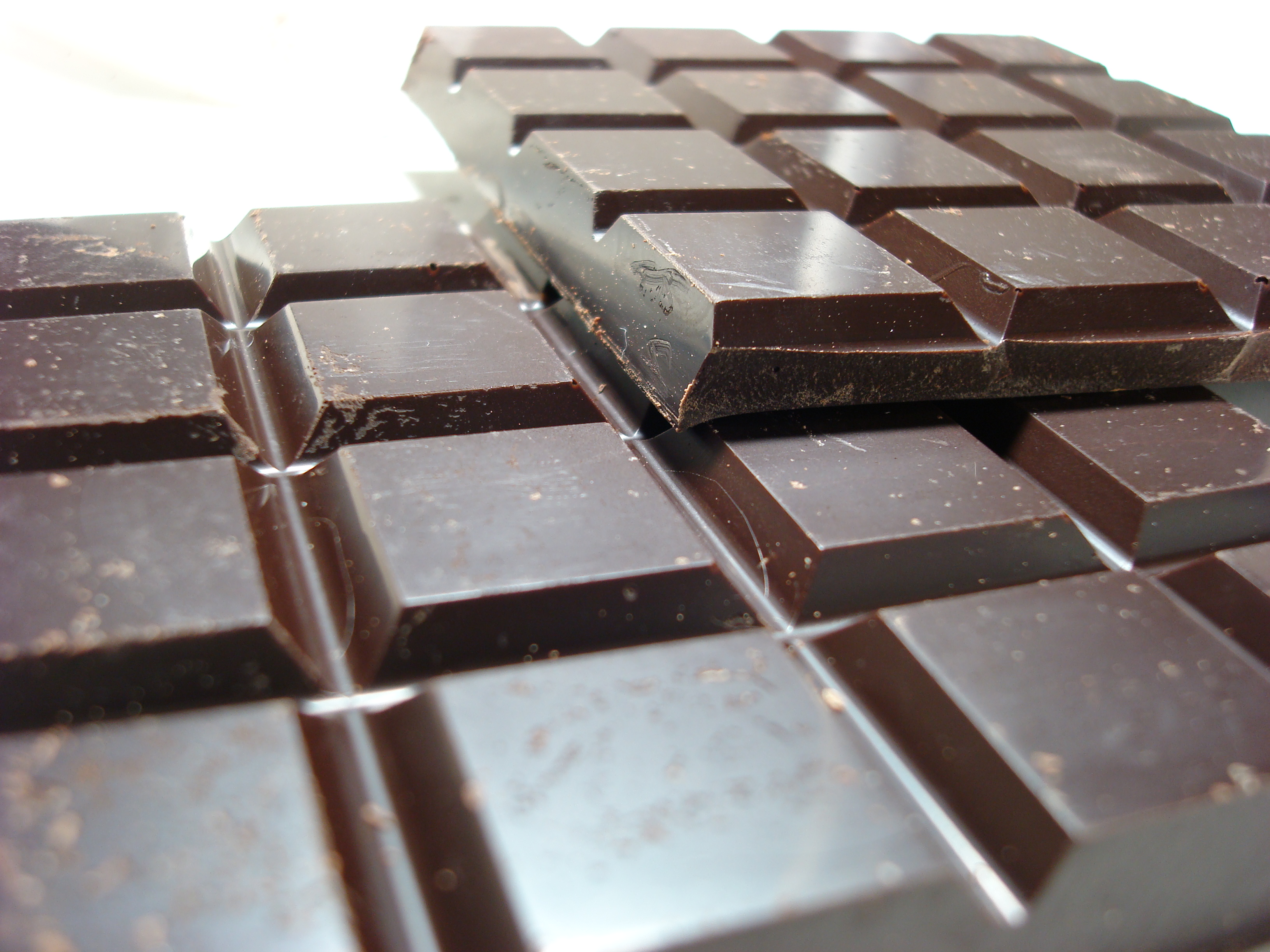 This is 72% cacao organic dark chocolate from Blanxart. It's rather bitter and strangely dry. There are much better chocolates out there.